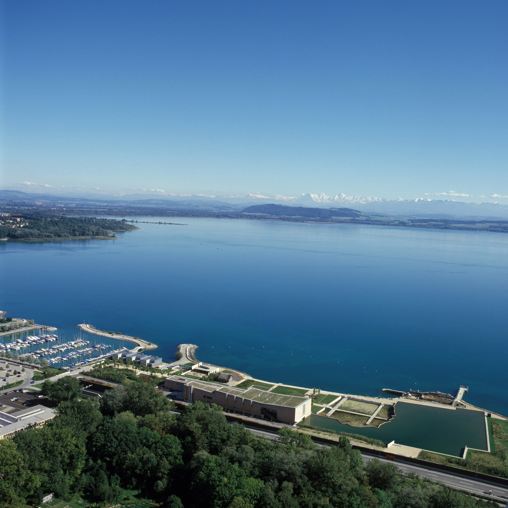 On the lakeside, facing the Alps: the Laténium from the counterforts of the Jura chain. Picture by Y. André / Laténium